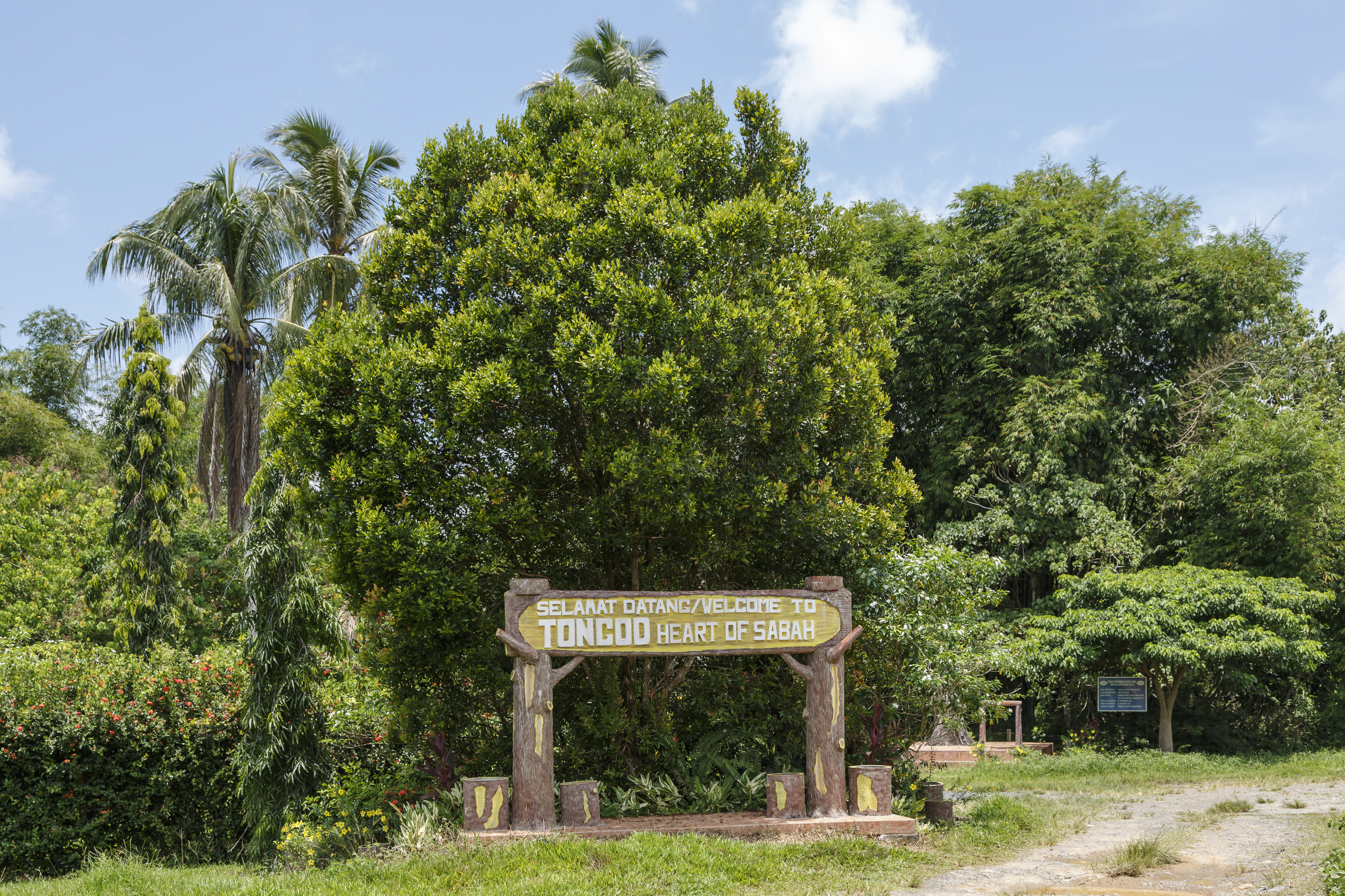 Tongod, Sabah, Malaysia: Welcome sign next to the Bakong Memorial